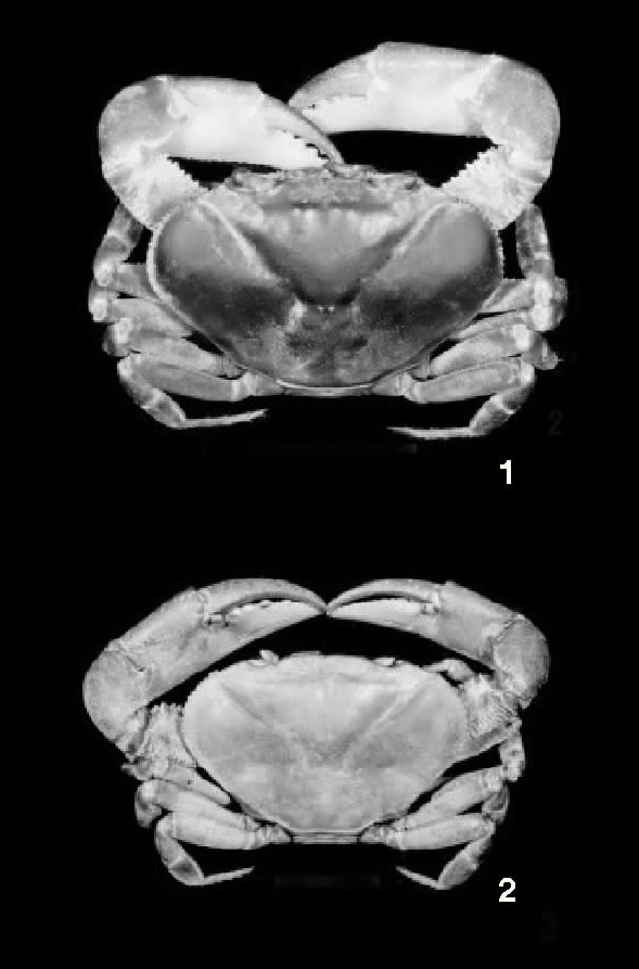 Fredius fittkaui(1)& Fredius platyacanthus (2)